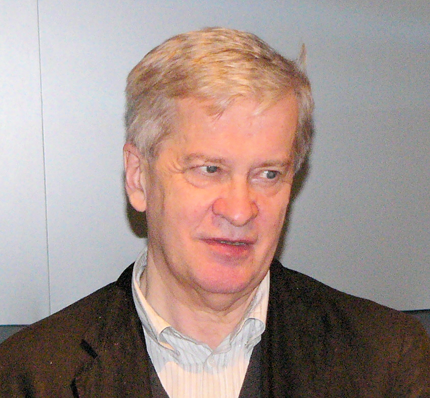 Richard Dyer. Red eyes effect removed.